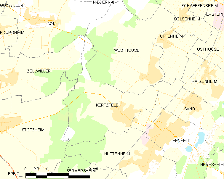 Map of French municipality